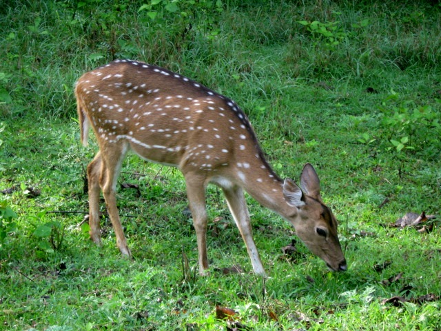 The deer was alone and it was searching for something but see carefully the dots on the deer. Thaken by from Thirunelly forest, Wayanad, Kerala, India.